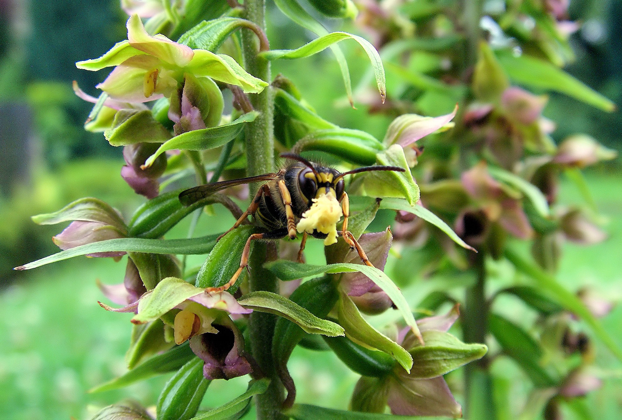 Epipactis helleborine